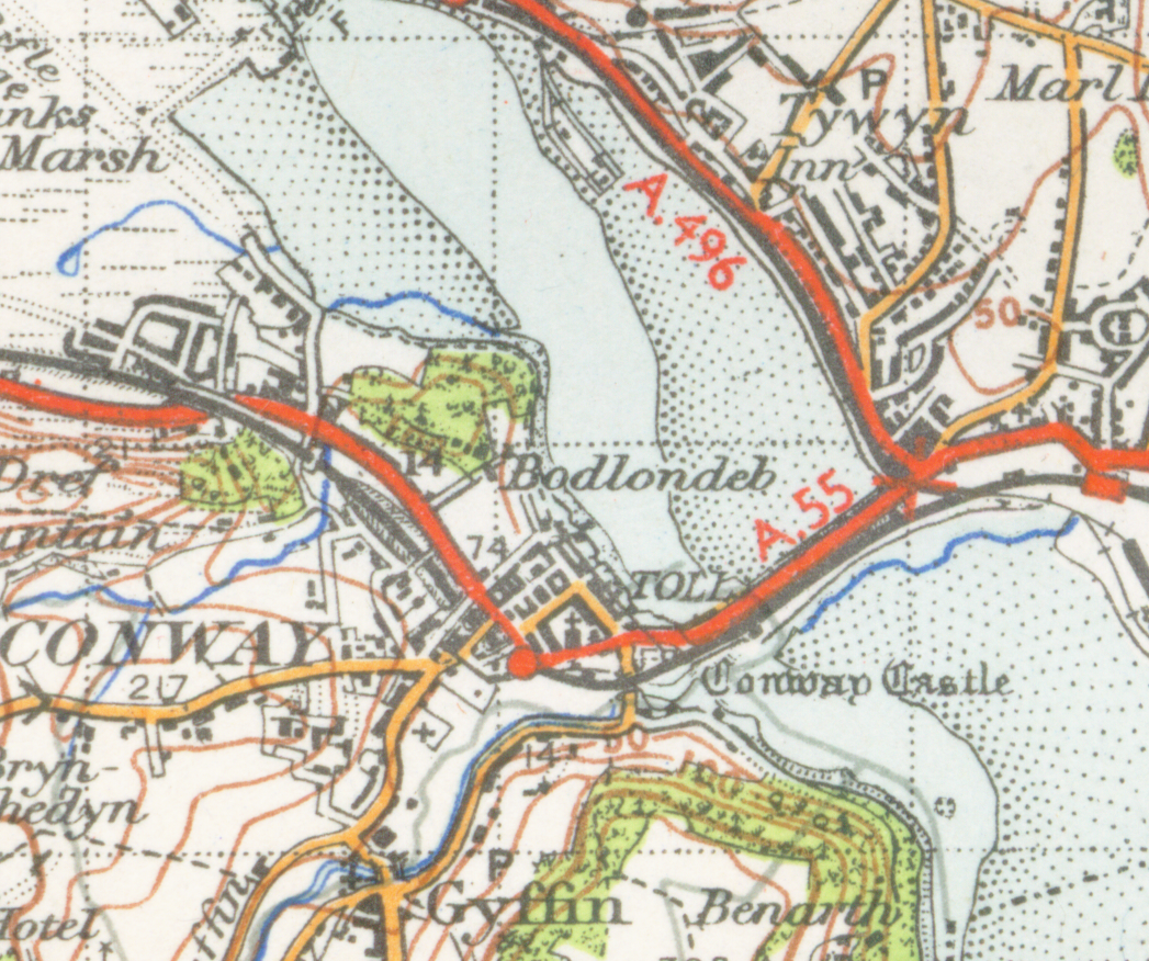 Map of Conwy from 1947. Scale 1 inch to the mile 600DPI Sheet 107 "Snowdon"